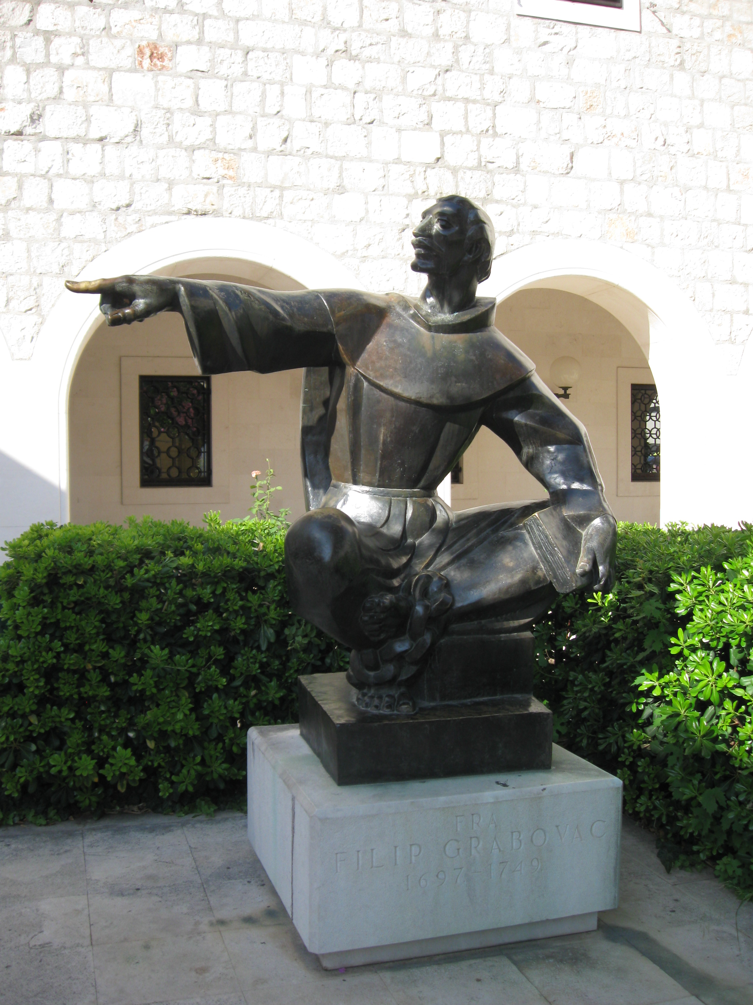 A monument to Filip Grabovac (1697–1749), a Franciscan priest, professor, patriot, poet and writer. Split, Croatia